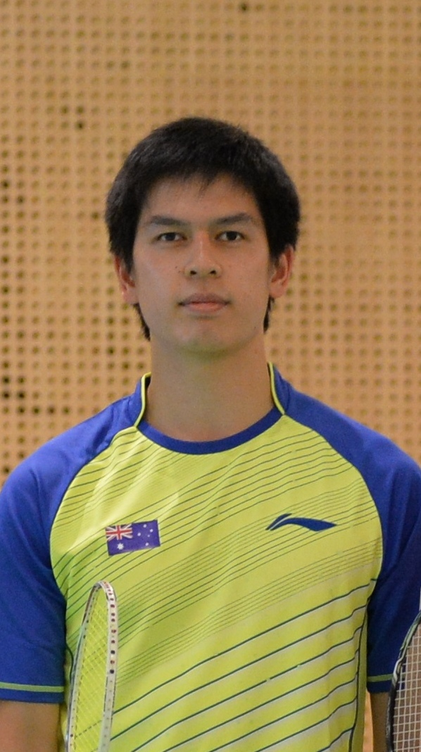 Gronya Somerville, Matthew Chau, Richi Puspita Dili and Riky Widianto at the friendly match badminton Australia and Indonesia 2016 in Australian Embassy Jakarta